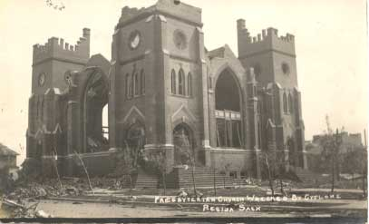 Photo of June 30, 1912 cyclone in Regina, Saskatchewan